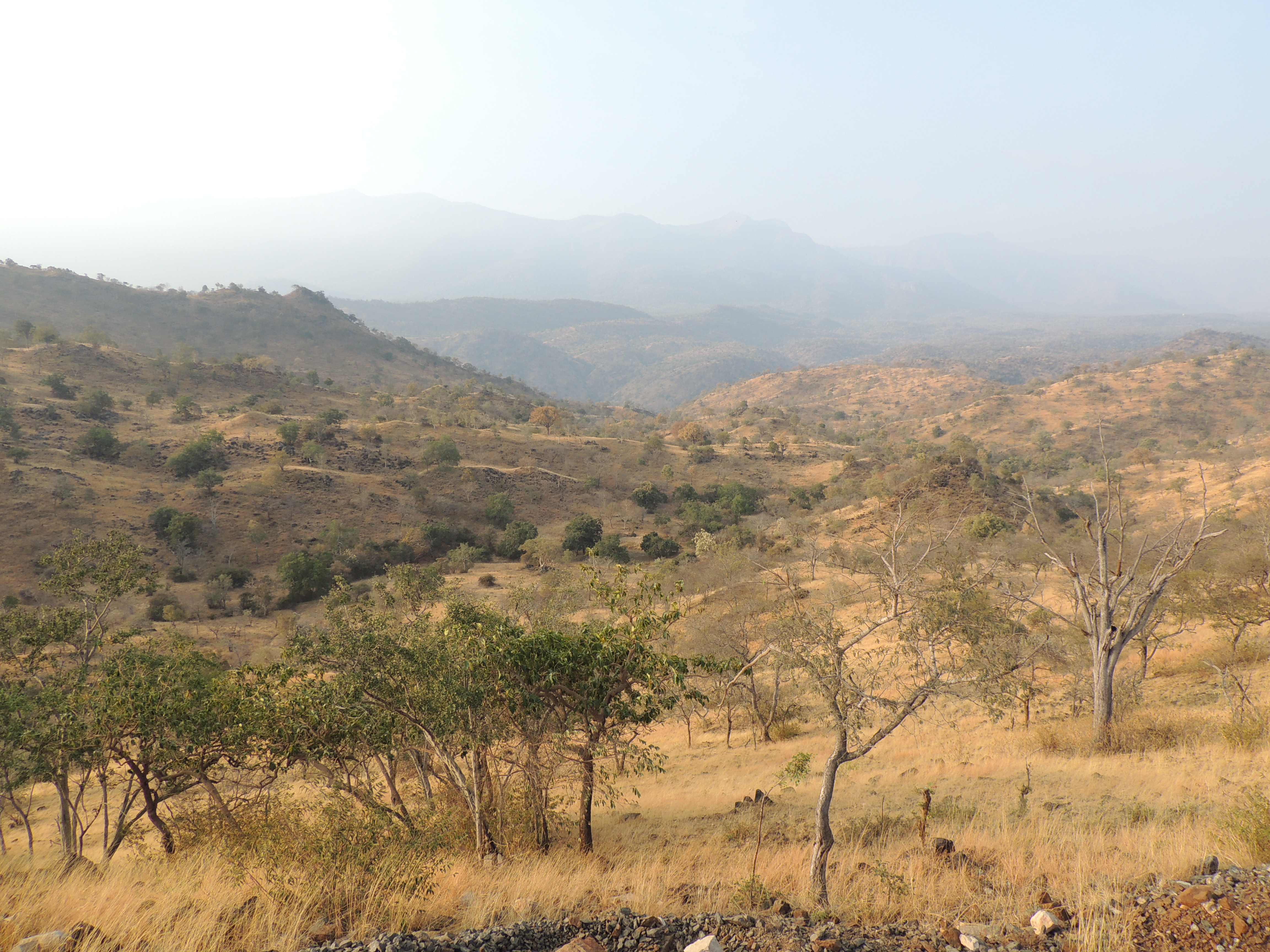 A view of Sigur Plateau